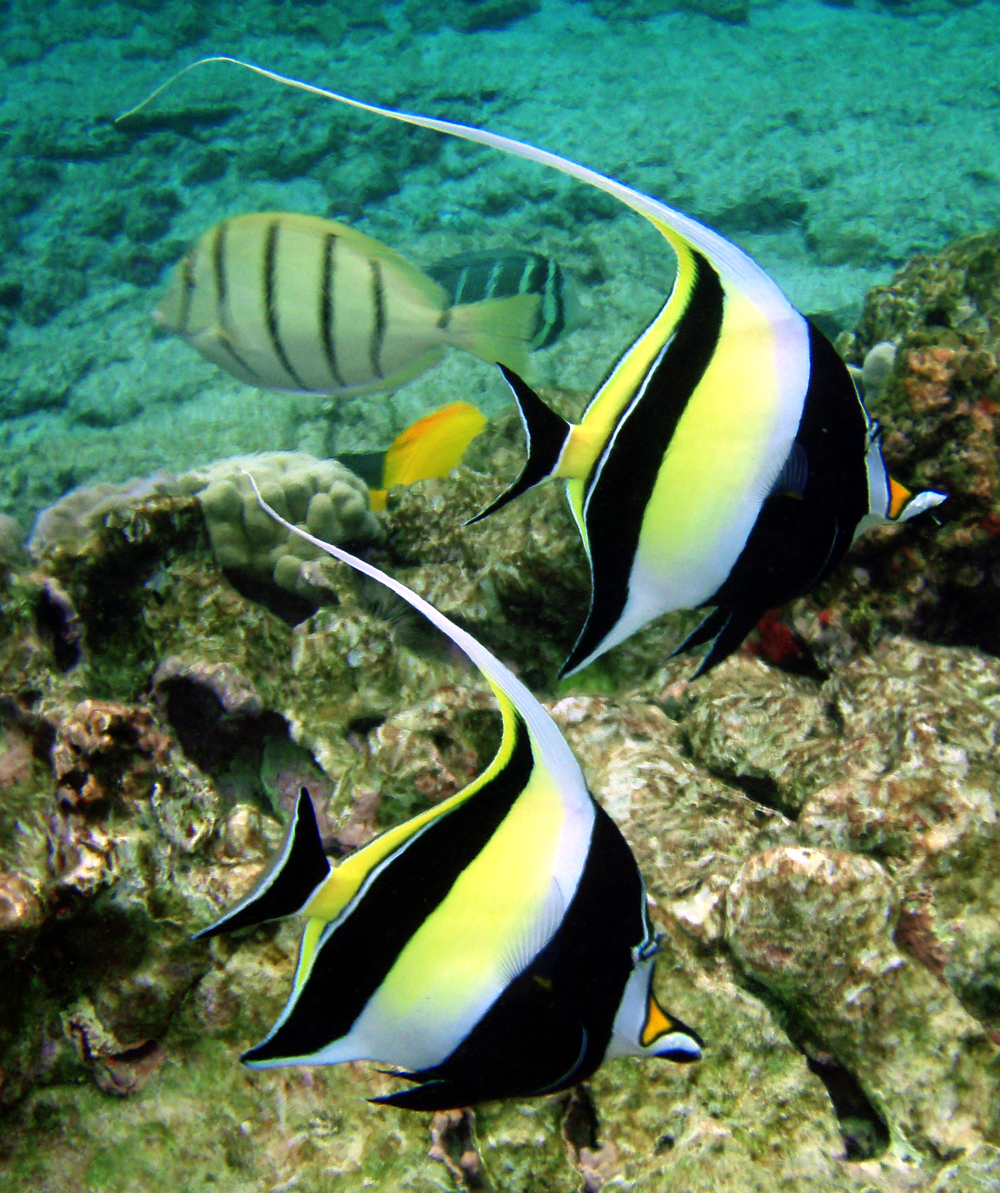 Moorish Idol (Zanclus cornutus) in Kona, Hawaii